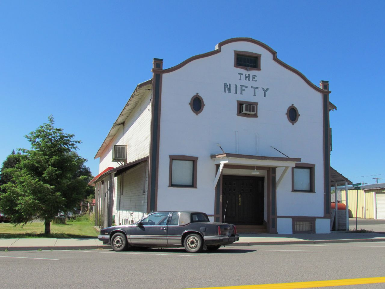 The NRHP-listed Nifty Theatre in Waterville, Washington.